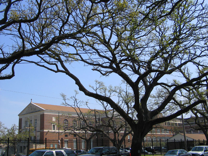 A rear view of Jesuit High School.